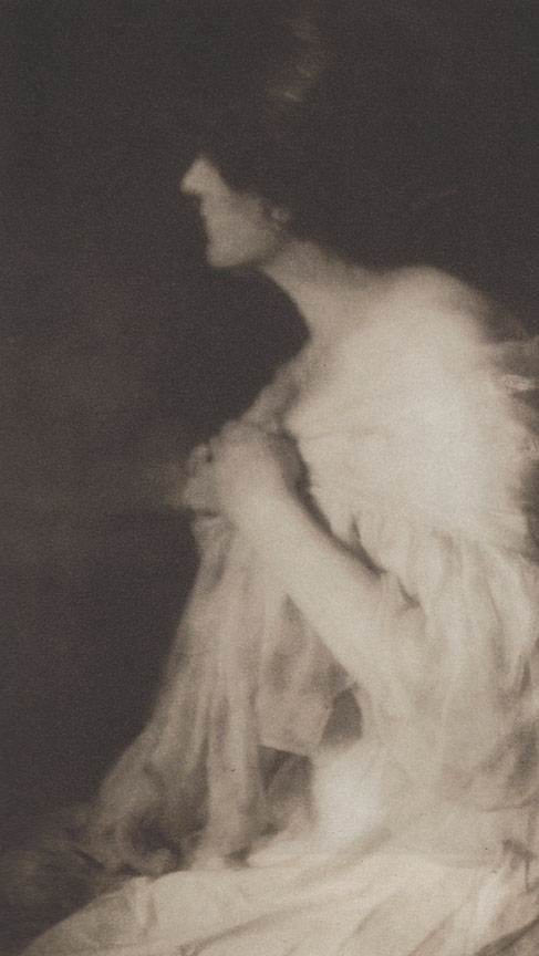 "Portrait of Miss M., of Washington", by Rose Clark and Elizabeth Flint Wade